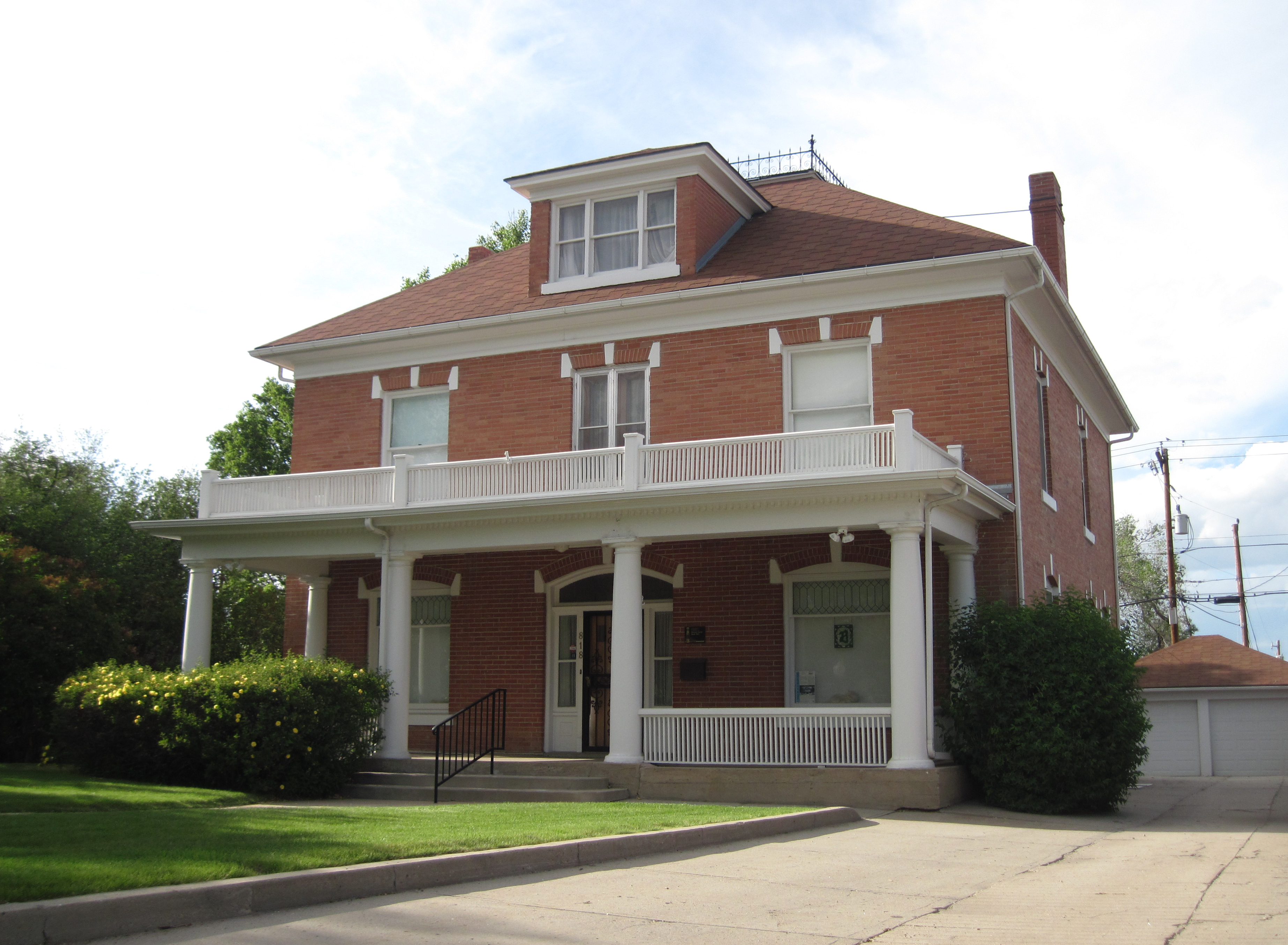 Bishop House in Casper, Wyoming. This beautiful foursquare home was built in 1907 and was the first multistoried brick homes in the city. Although it was originally located in the affluent Capitol Hill district of Casper, the neighborhood has evolved into a primarily commercial area as the downtown has grown. Bishop House, however, remains largely unchanged. It was listed on the National Register of Historic Places in 2001 and is maintained by the Cadoma Foundation, which uses the home primarily for tea parties, historical tours, and the like.